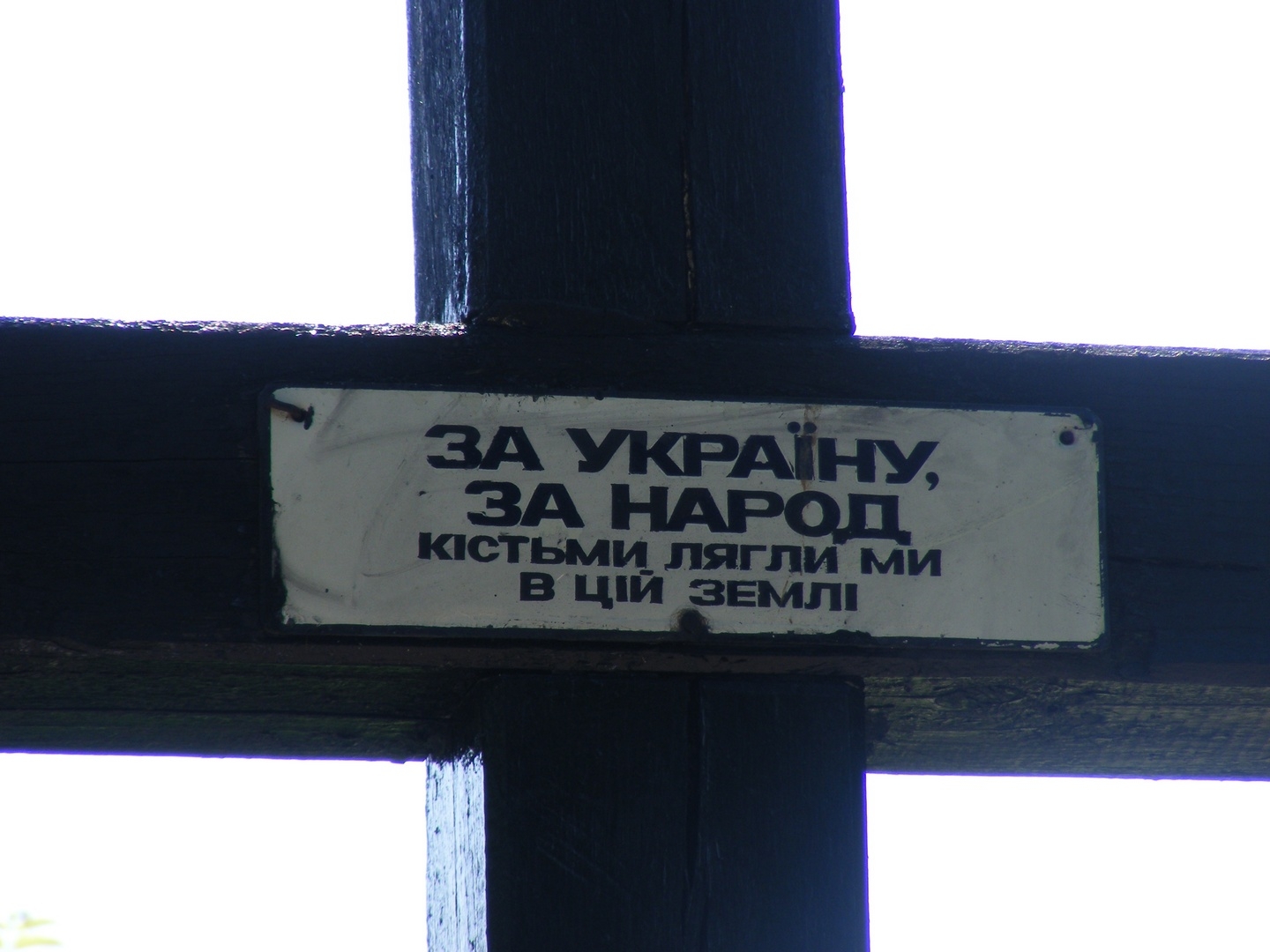 Inscription on one of the crosses on the common grave of Sich Riflemen in Didivshchyna village (Ukraine)